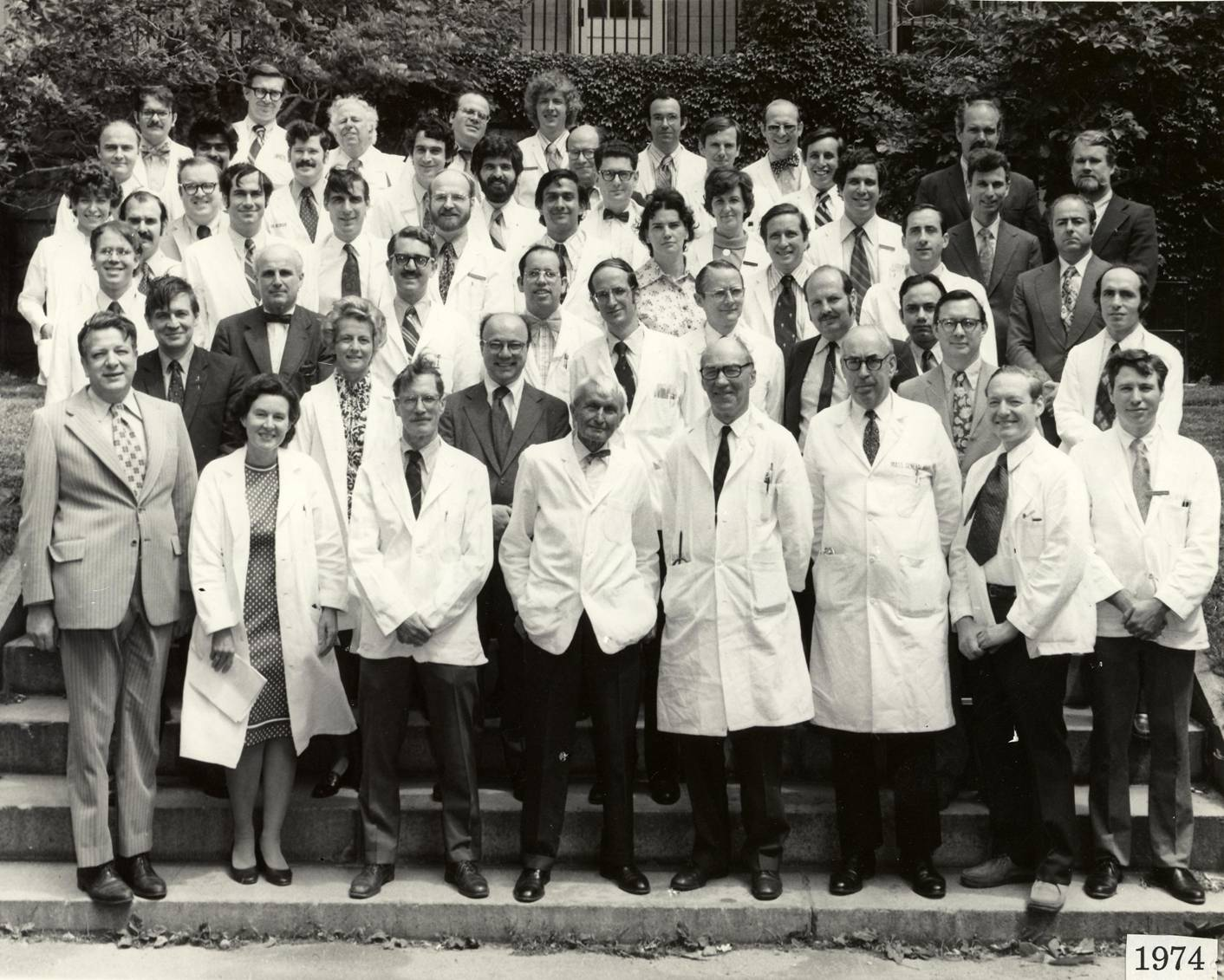 1974: Dr. Hugo Moser with fellow neurology department at MGH